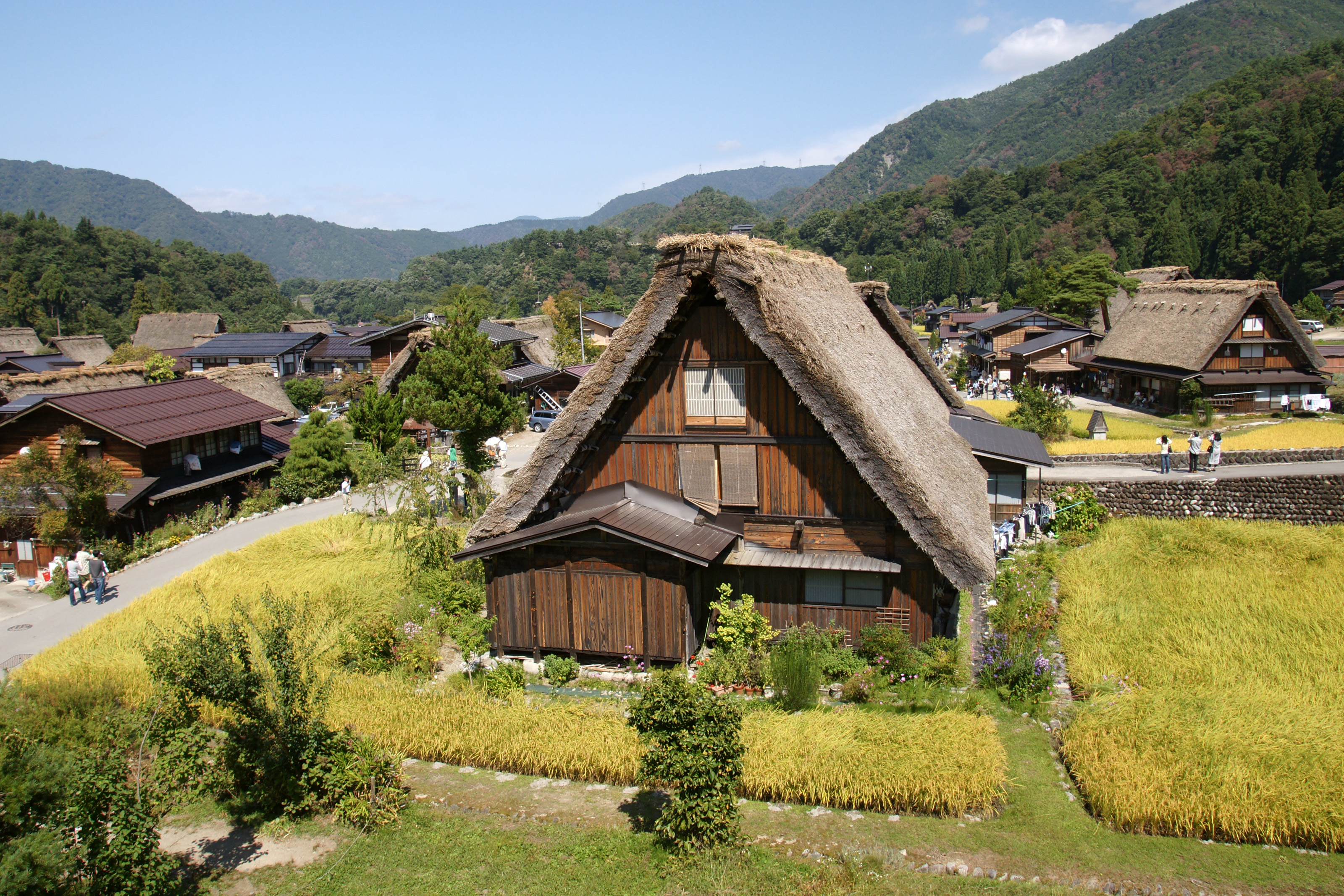 Shirakawa-go (Ogi) in Shirakawa, Gifu prefecture, Japan